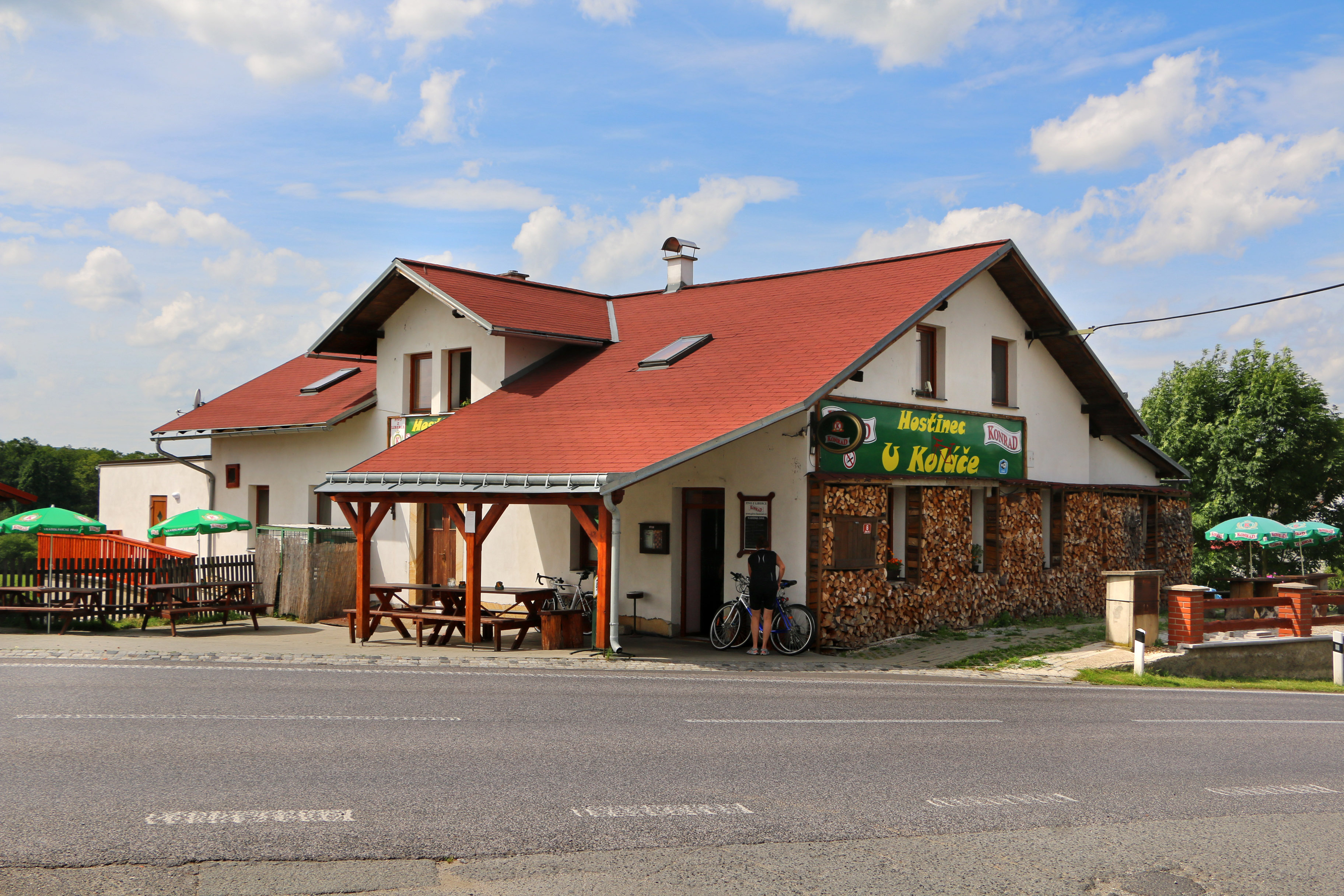 Restaurant in Česká Ves, part of Jablonné v Podještědí, Czech Republic.